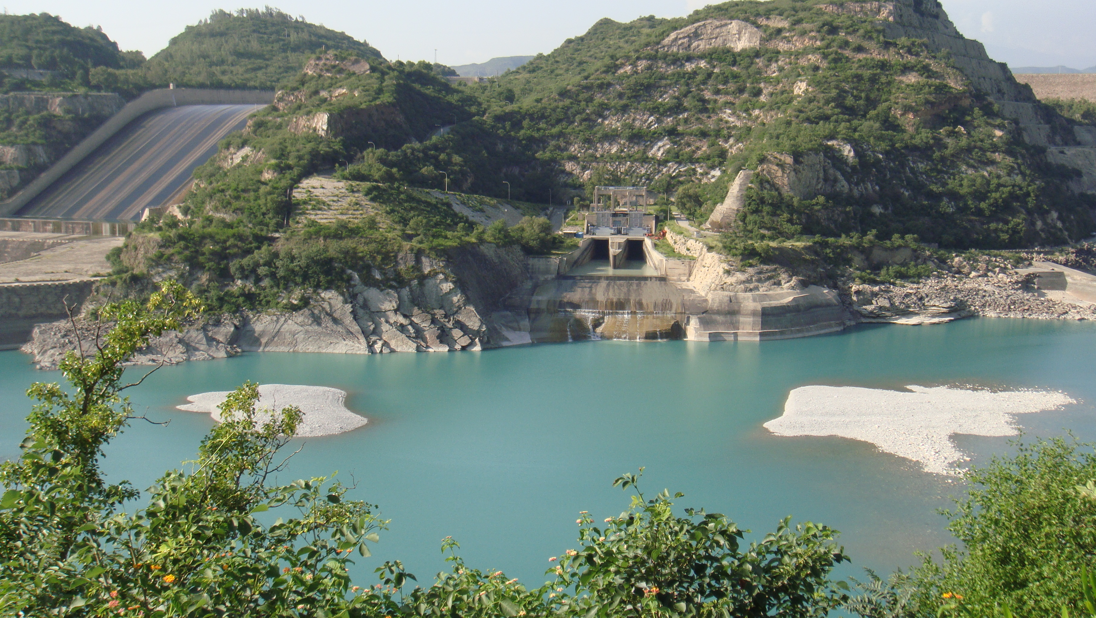 beautiful view of Dam